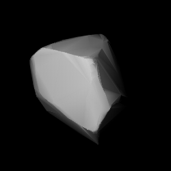 3D convex shape model of 1735 ITA, computed using light curve inversion techniques. J. Hanuš, J. Ďurech, M. Brož, B. D. Warner (June 2011). "A study of asteroid pole-latitude distribution based on an extended set of shape models derived by the lightcurve inversion method". Astronomy and Astrophysics 530: A134. ISSN 0004-6361. arXiv